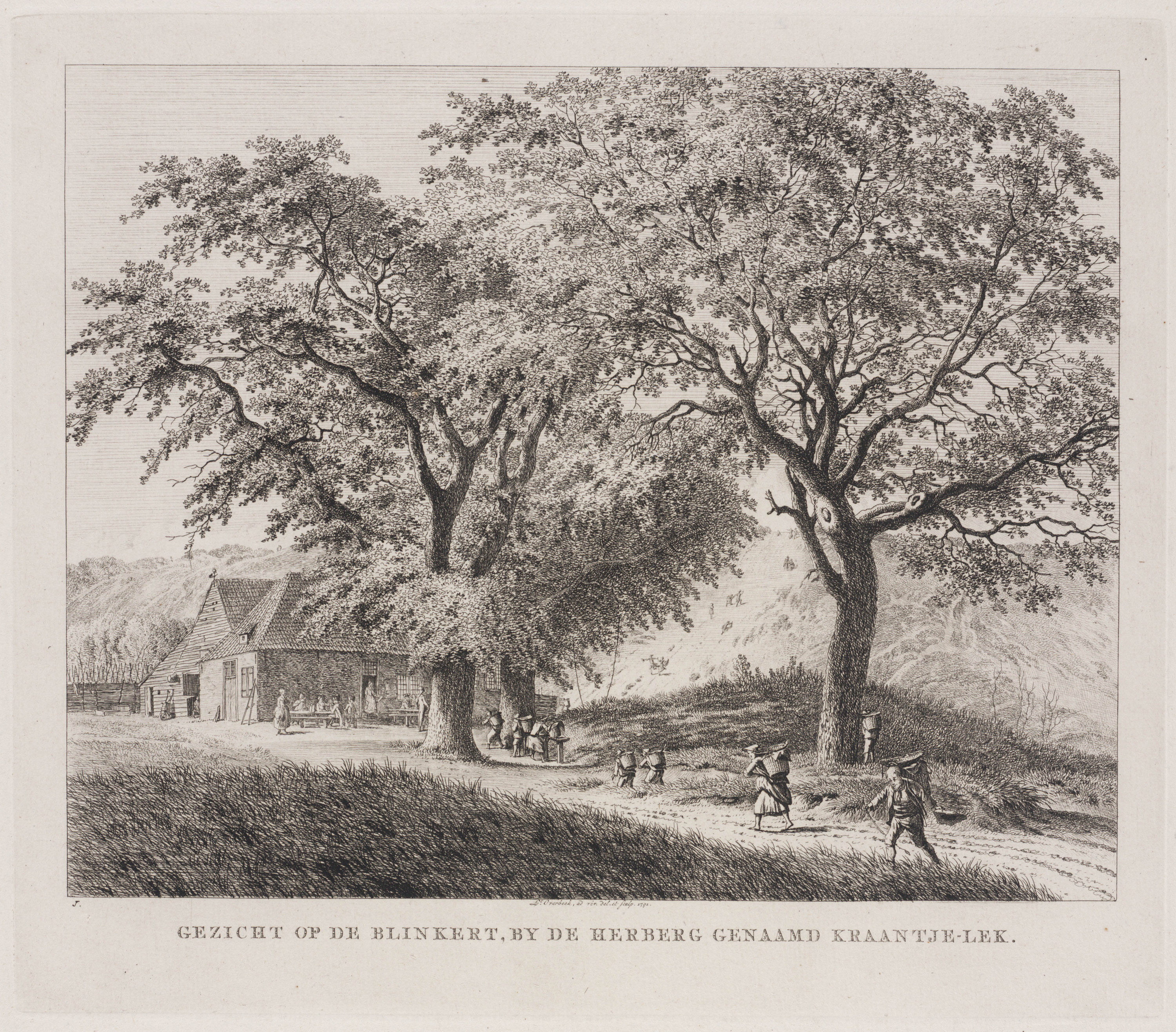 Gezicht op de Blinkert, bij Kraantje Lek. Leendert Overbeek (1752-1815) (graveur).